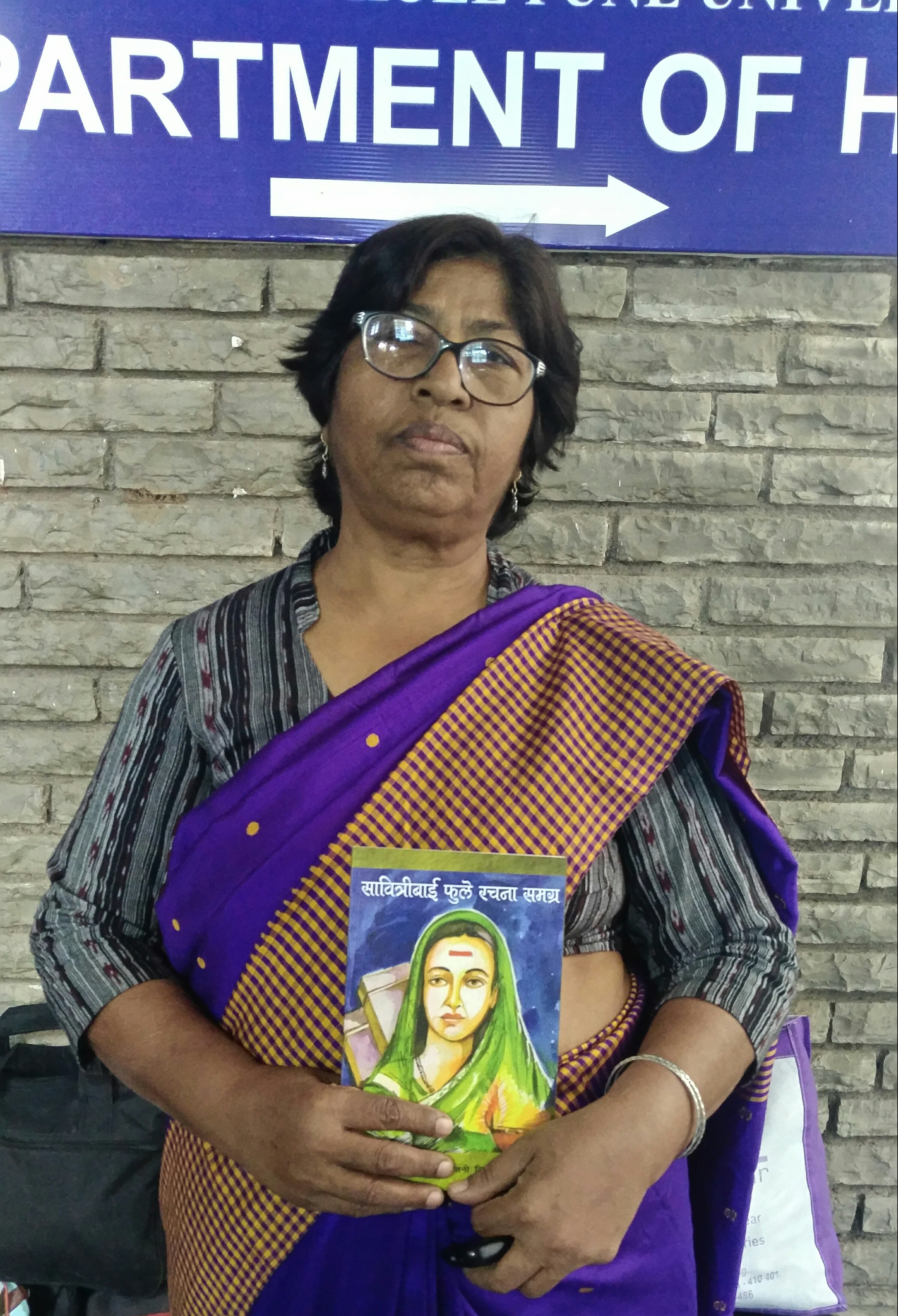 Rajni Tilak with her translated work of Savitribai Phule’s poems at Savitribai Phule Pune University in 2017.